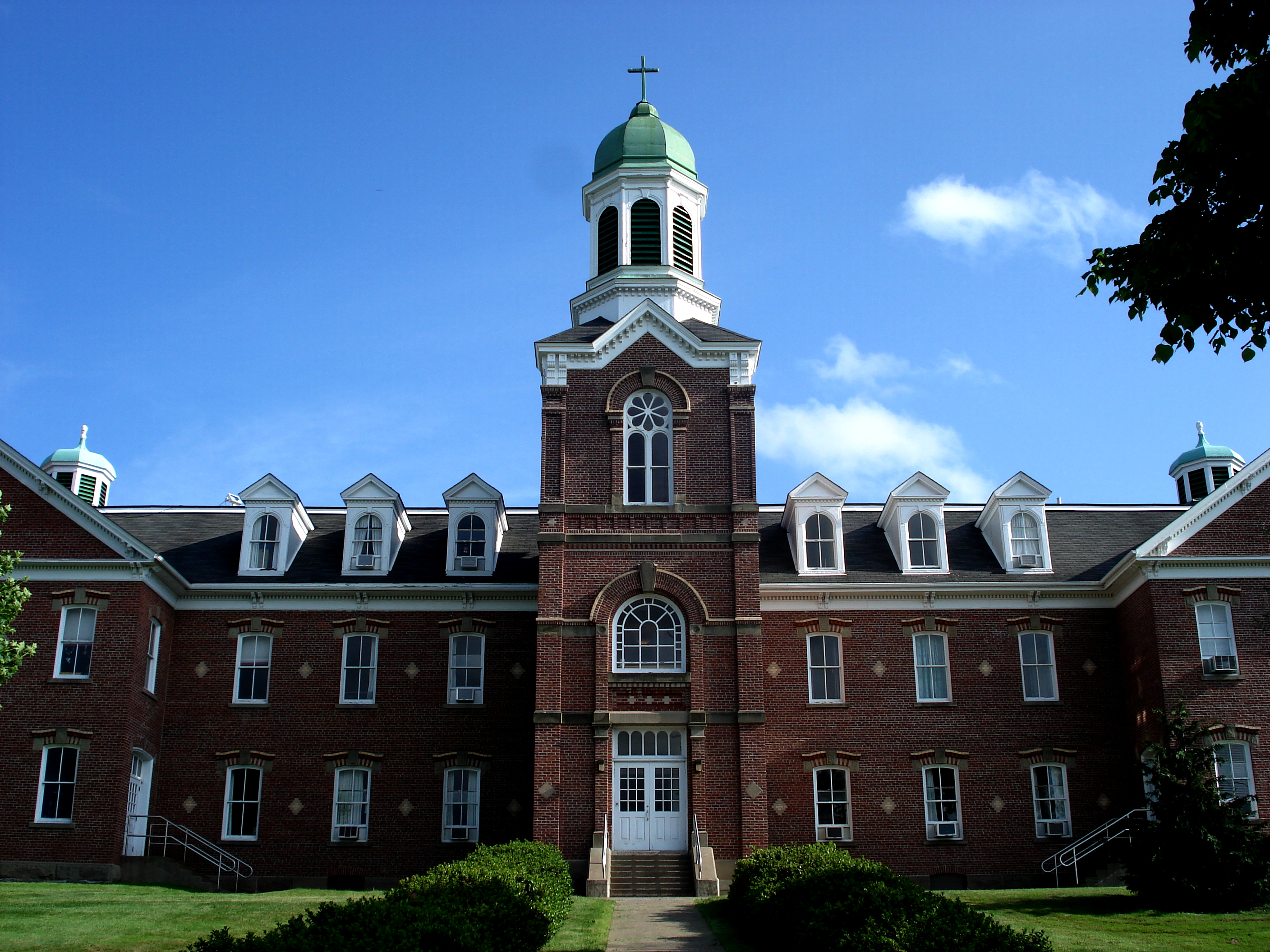 St. Francis Xavier University, Antigonish, Nova Scotia